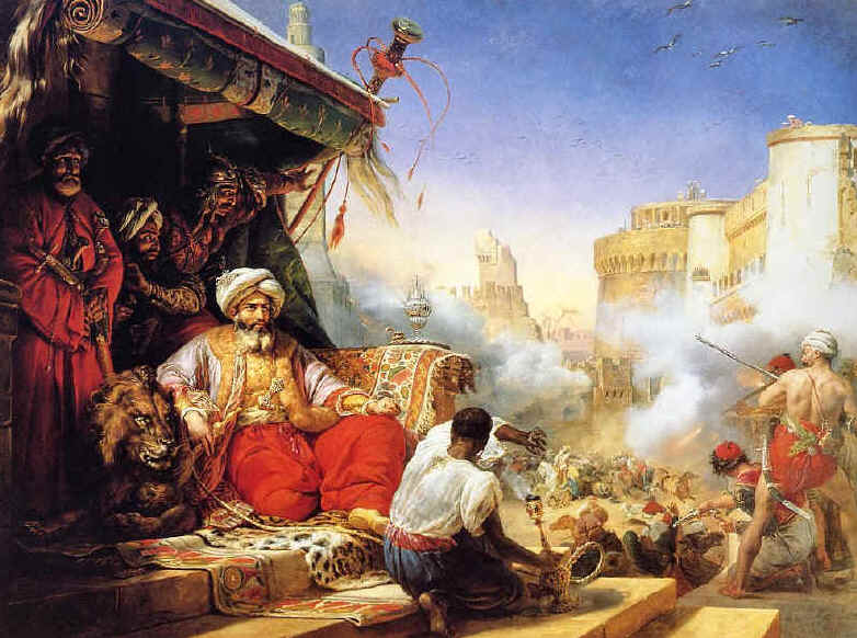 Painted by Horace Vernet, this image show us high-ranked Mamluk.